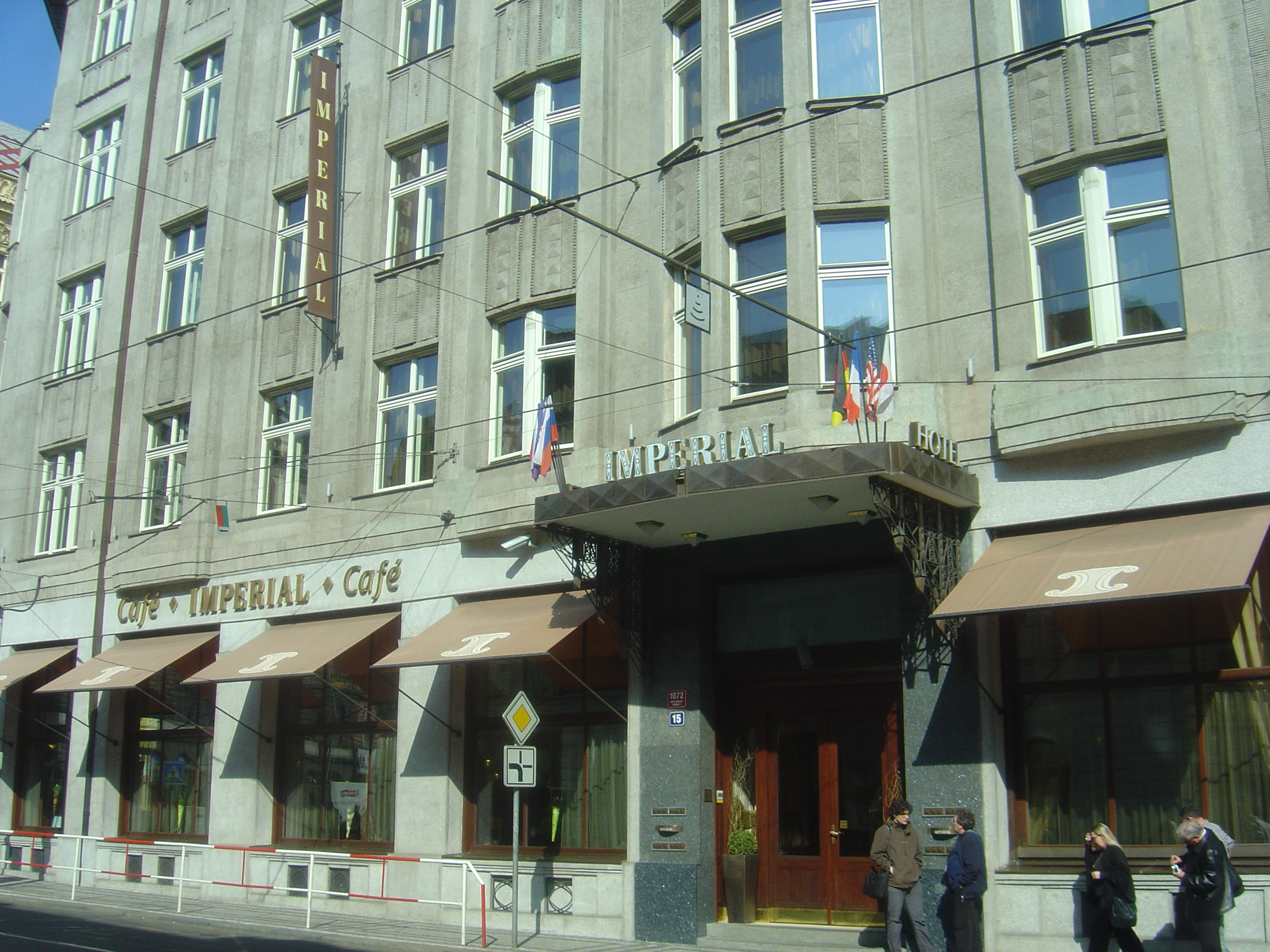 Cafe Imperial in Prague